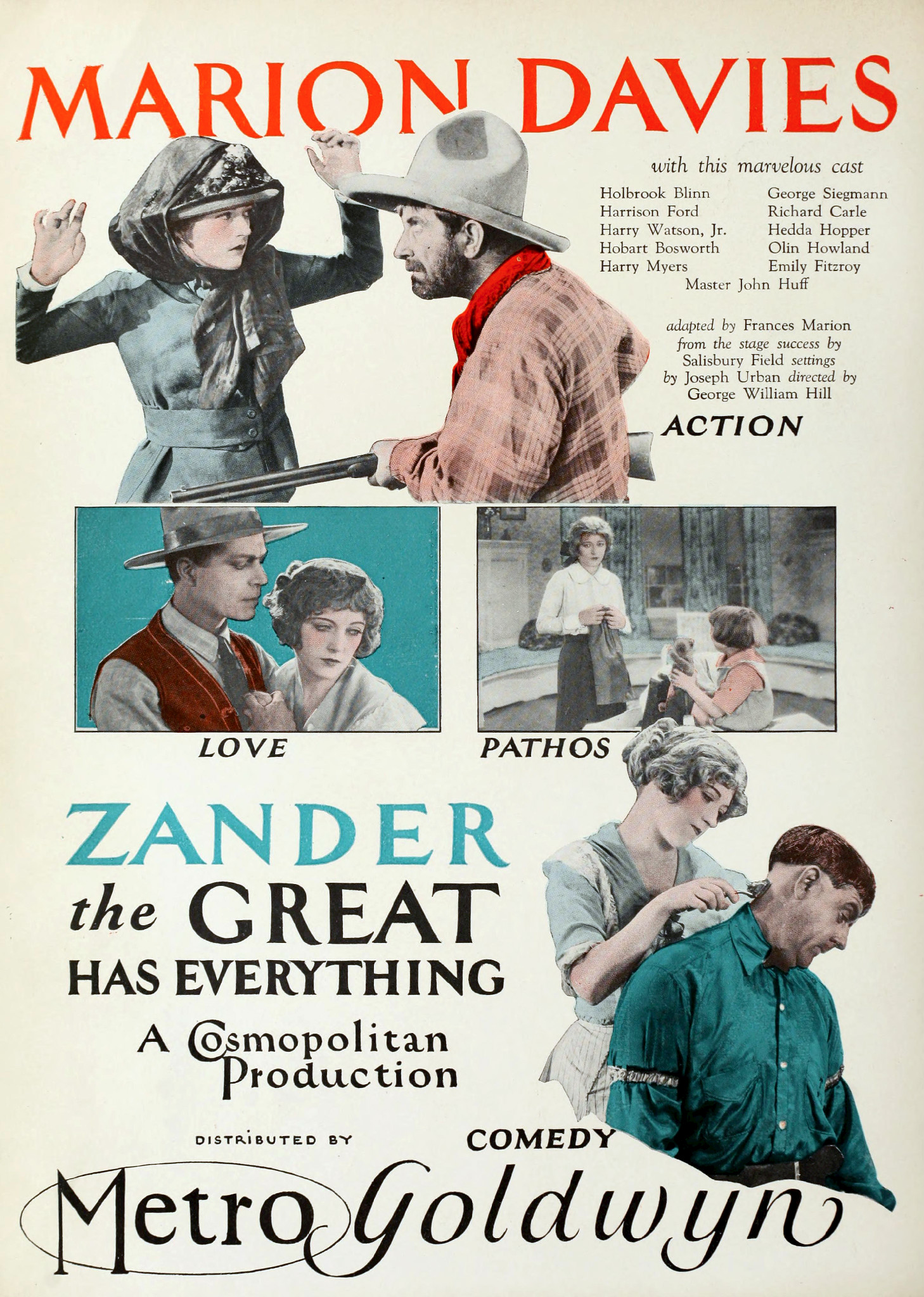 Ad for the 1925 film Zander the Great from a May 1925 issue of Motion Picture News. Will need no notice ad license at Commons. Metro Goldwyn did not mark their ad as copyrighted. Copyright for Motion Picture News would not apply to the ad. A check of renewals for periodicals in 1952 and 1953 also shows that Motion Picture News did not renew its copyright. US Copyright Office page 3-magazines are collective works (PDF) "A notice for the collective work will not serve as the notice for advertisements inserted on behalf of persons other than the copyright owner of the collective work. These advertisements should each bear a separate notice in the name of the copyright owner of the advertisement."